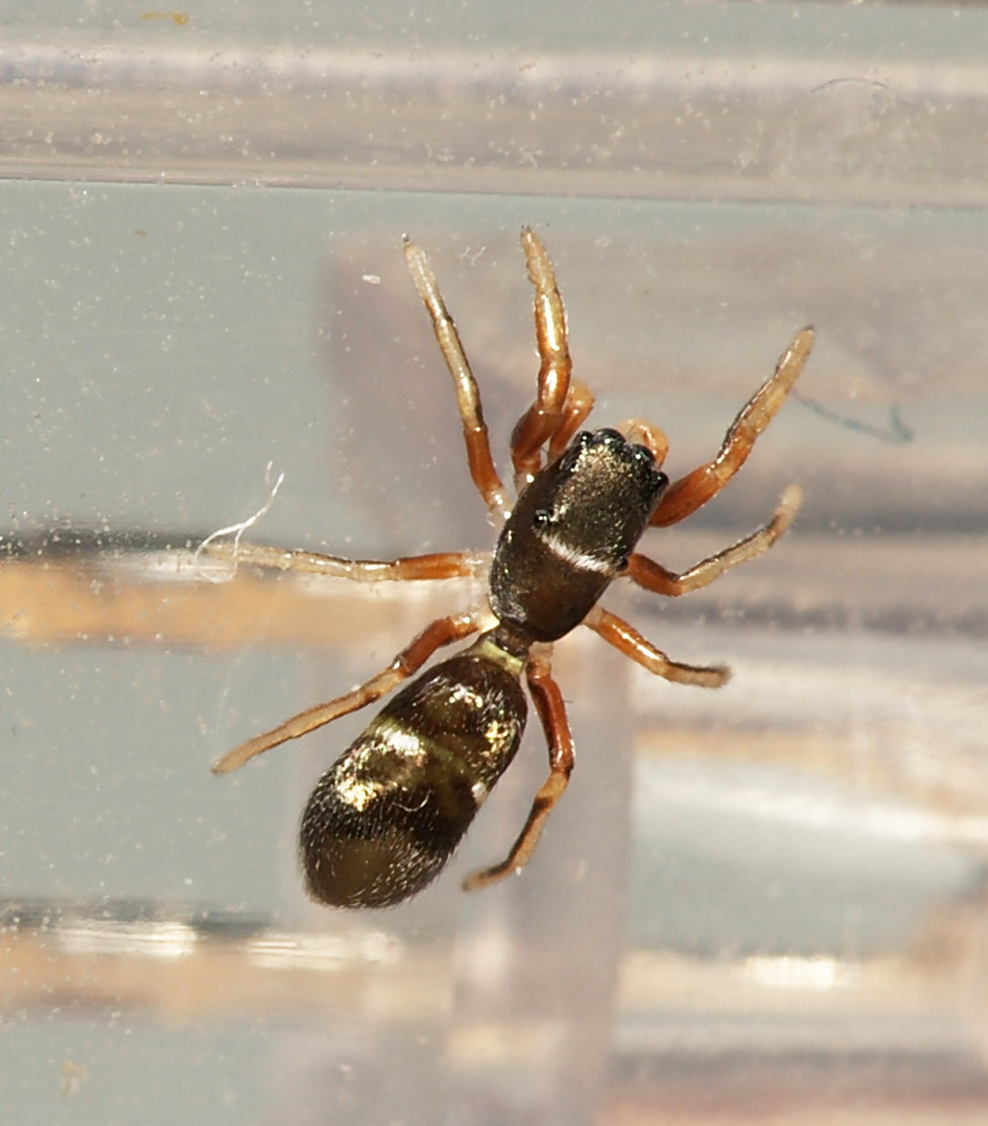 Synageles venator caught in Cologne Zoo, Germany.